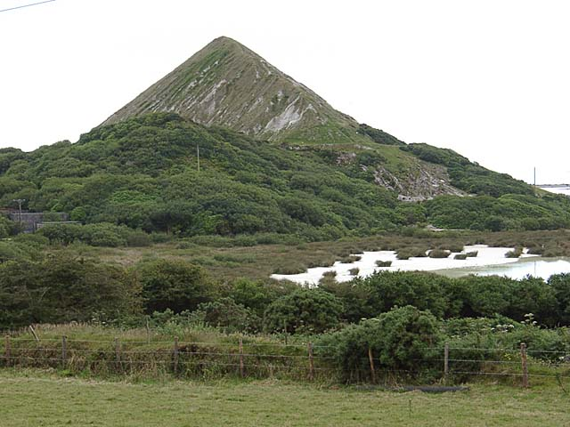 China Clay Tip. A large mica tip at a disused China Clay working at Carluddon.